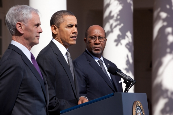 President Barack Obama speaking in the White House Rose Garden, along with John Bryson and Ron Kirk.